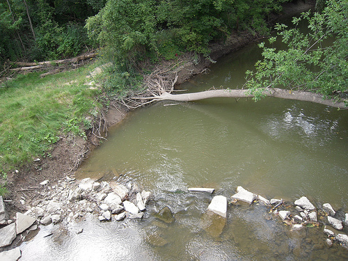 Plaster Creek, Kent County, Michigan. View looking west from Kalamazoo Avenue (downstream).